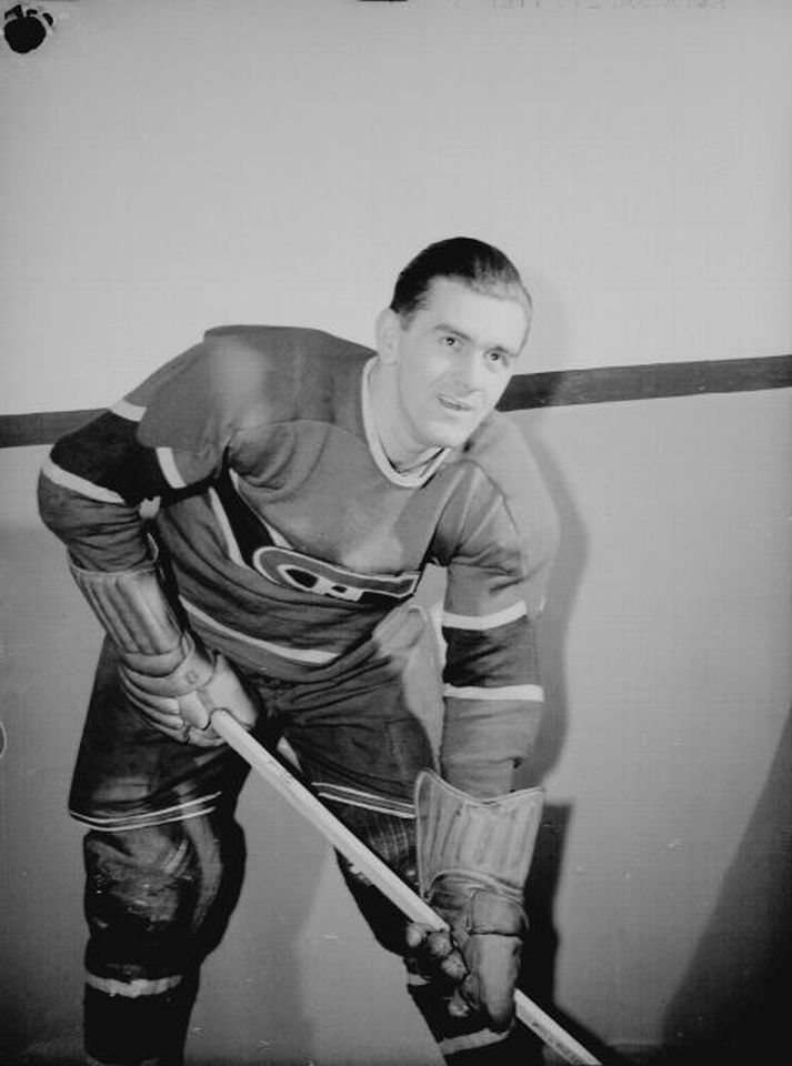 Maurice Richard, hockey player for the Montreal Canadiens. It is on the ice, leaning on his stick.